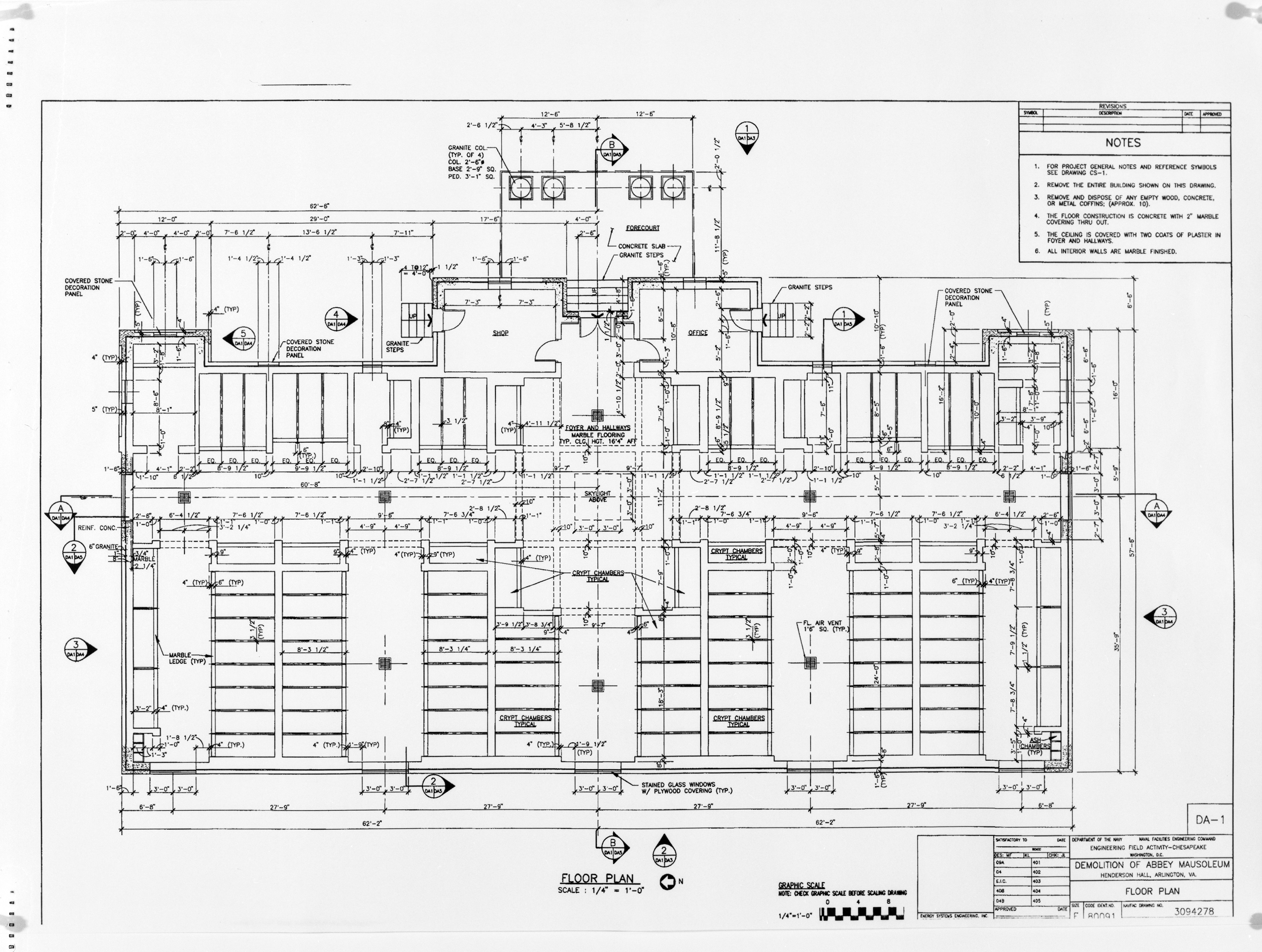 Floor plan of Abbey Mausoleum in Arlington County, Virginia, in the United States. The plans were drawn by the U.S. Navy Facilities Engineering Command. Abbey Mausoleum was constructed between 1924 and 1927. It was once the most luxurious mausoleum in the entire District of Columbia metropolitan area. It fell into disuse when the U.S. Marine Corps' Henderson Hall expanded to encompass all the land around it, cutting it off from public access. It fell into disuse and disrepair. All the bodies were removed in December 2000 and January 2001, and it was demolished on February 5, 2001.